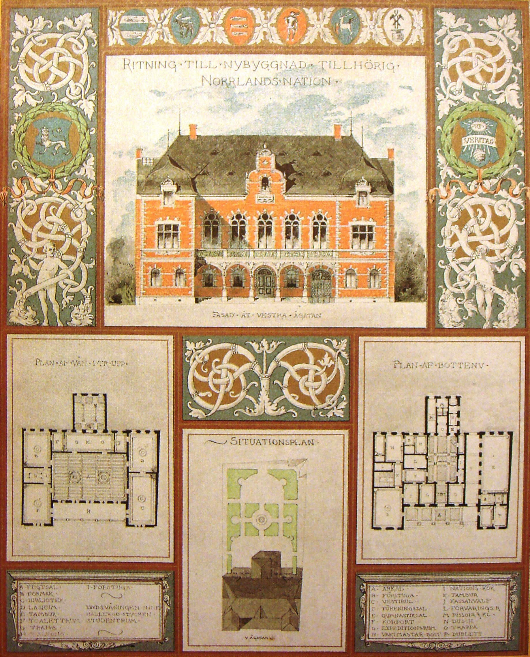 Print of Norrlands nation. Photocopy